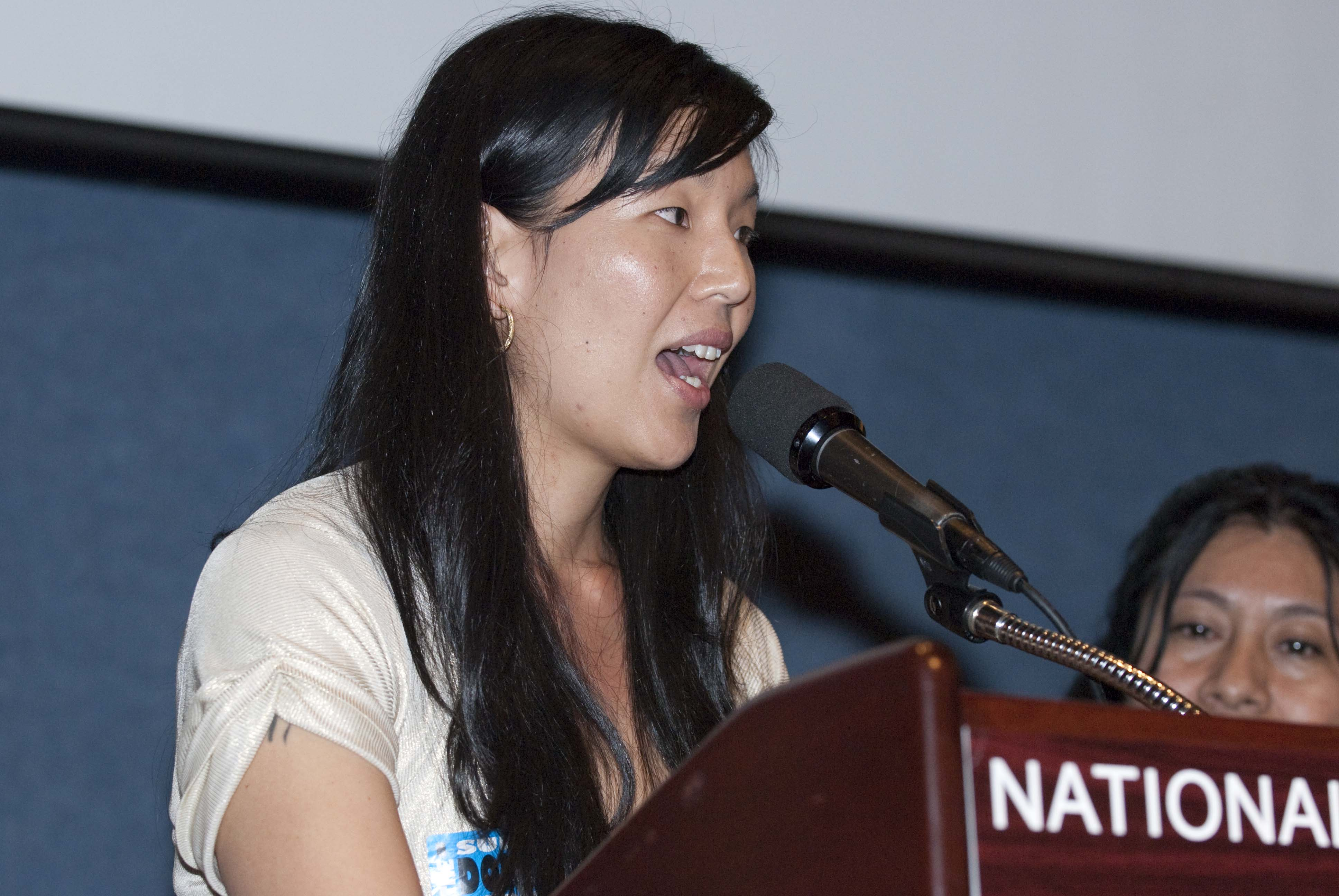 Ai-jen Poo at 2009 Annual Letelier-Moffitt Human Rights Awards courtesy Institute for Policy Studies Flickr